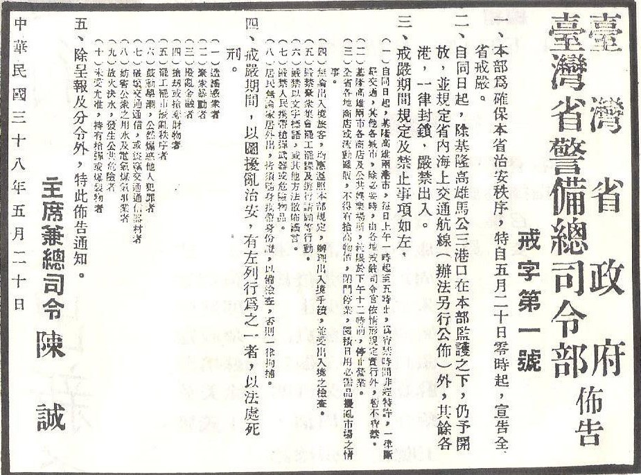 Announcement of imposition of the "Order of Martial Law" in Taiwan, May 20, 1945.